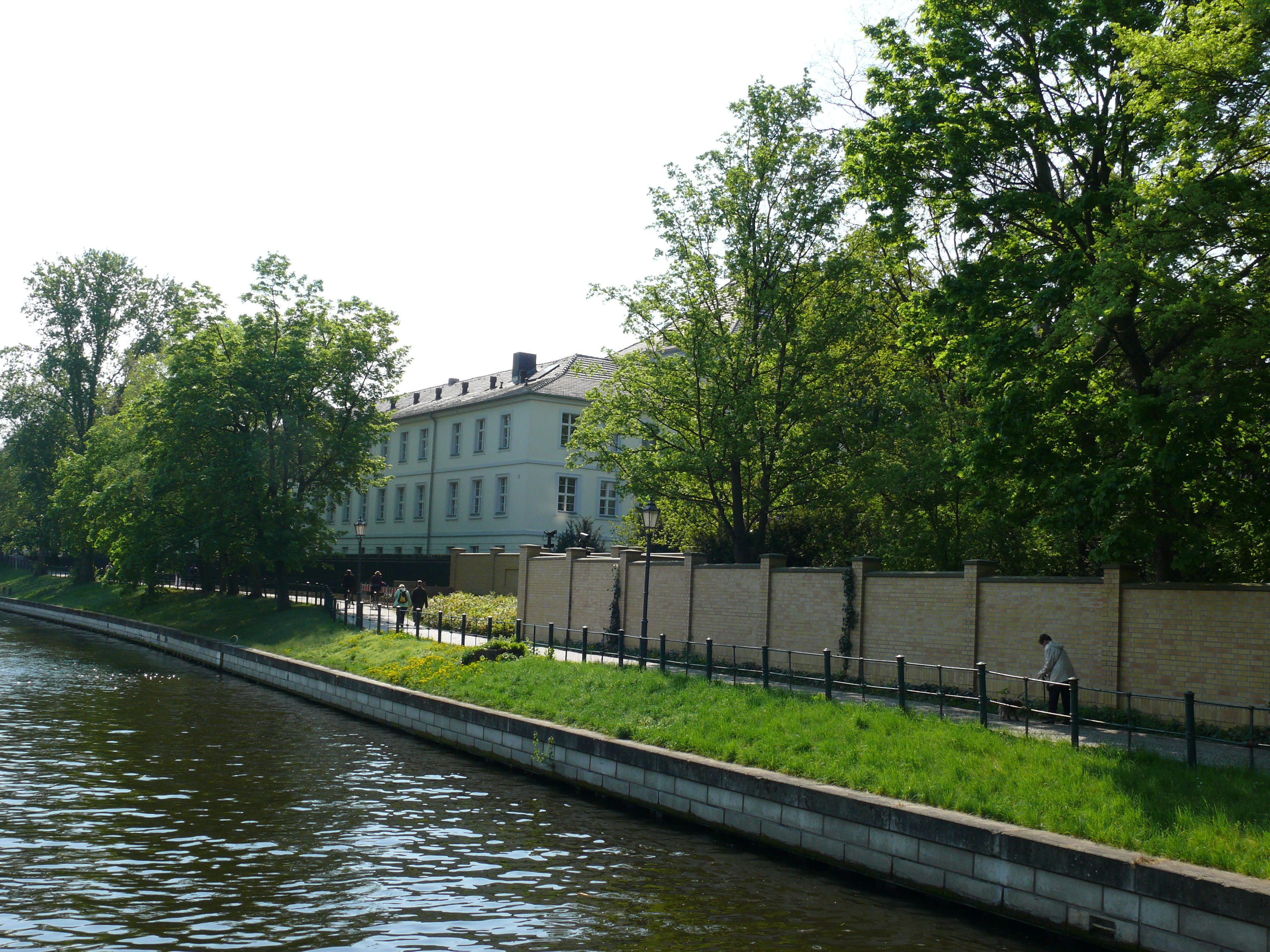 Berlin-Tiergarten Bellevue-Ufer